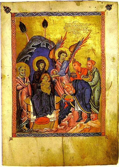 Armenian manuscript illustrated by Toros Roslin, Gospel of Malatia, 1268 (Ms. 10675)